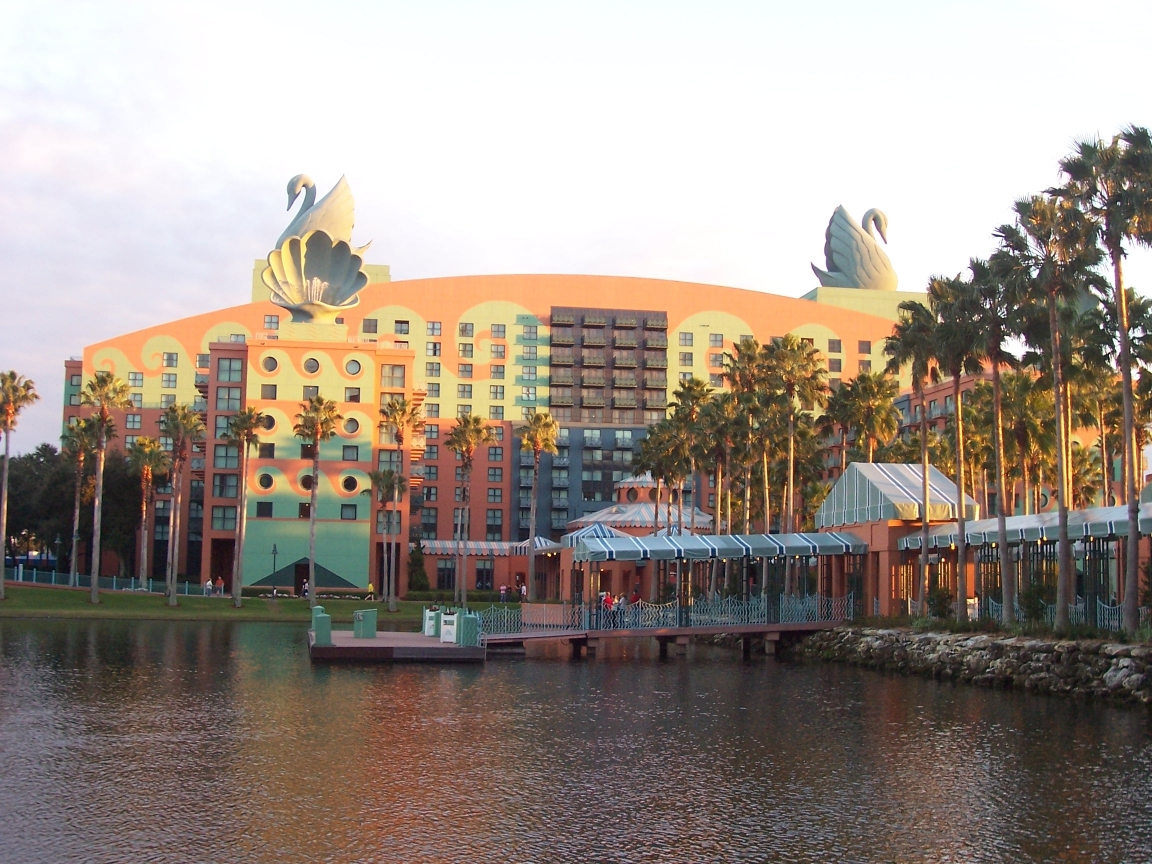 Swan Hotel, Walt Disney World, Lake Buena Vista, Florida.